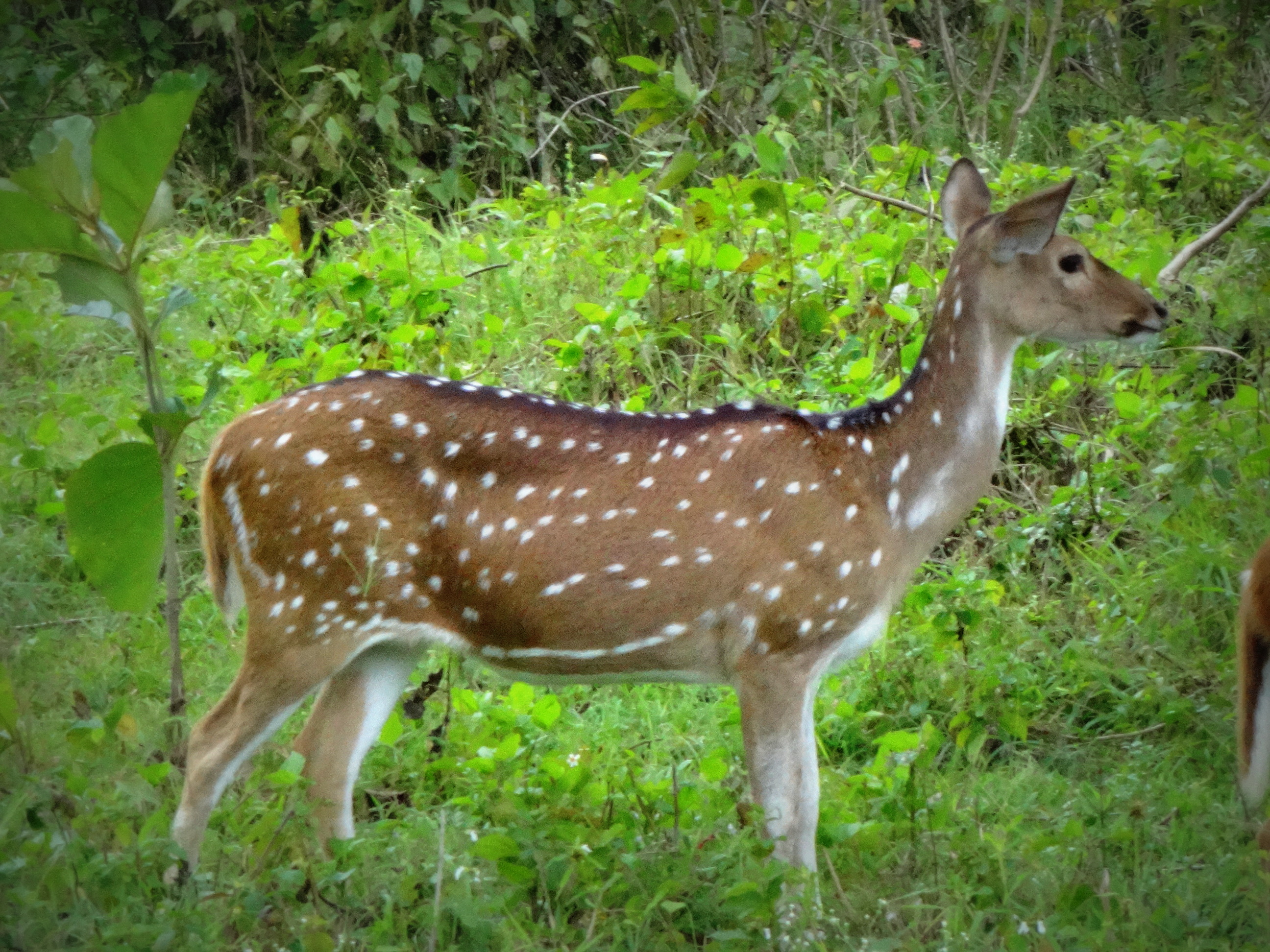 LOVELY DEER